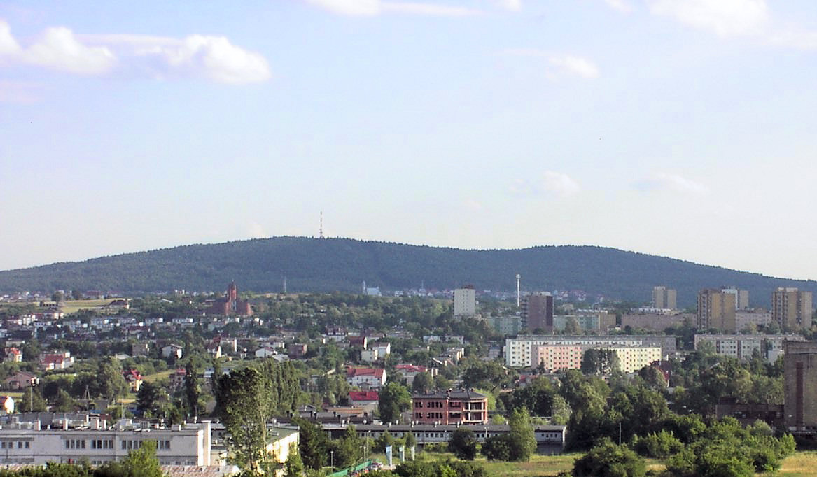 Telegraf mountain, Kielce, Poland, 2003 yr. Aparat/Camera: Premier DC-2350